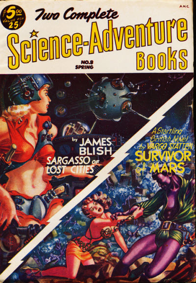 Cover, Two Complete Science Adventure Books, Spring 1953